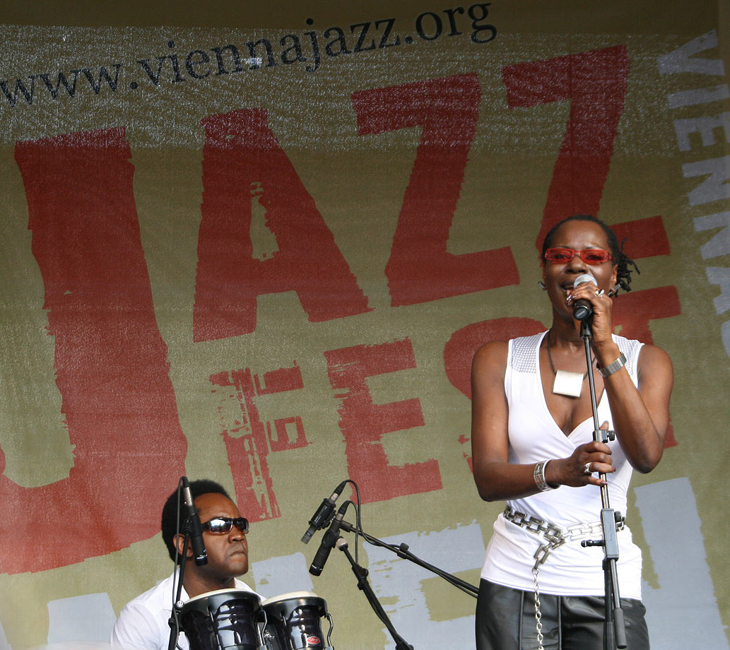 Singer Dorretta Carter at the Vienna Jazz Festival 2007 (Museumsquartier, Vienna, Austria)